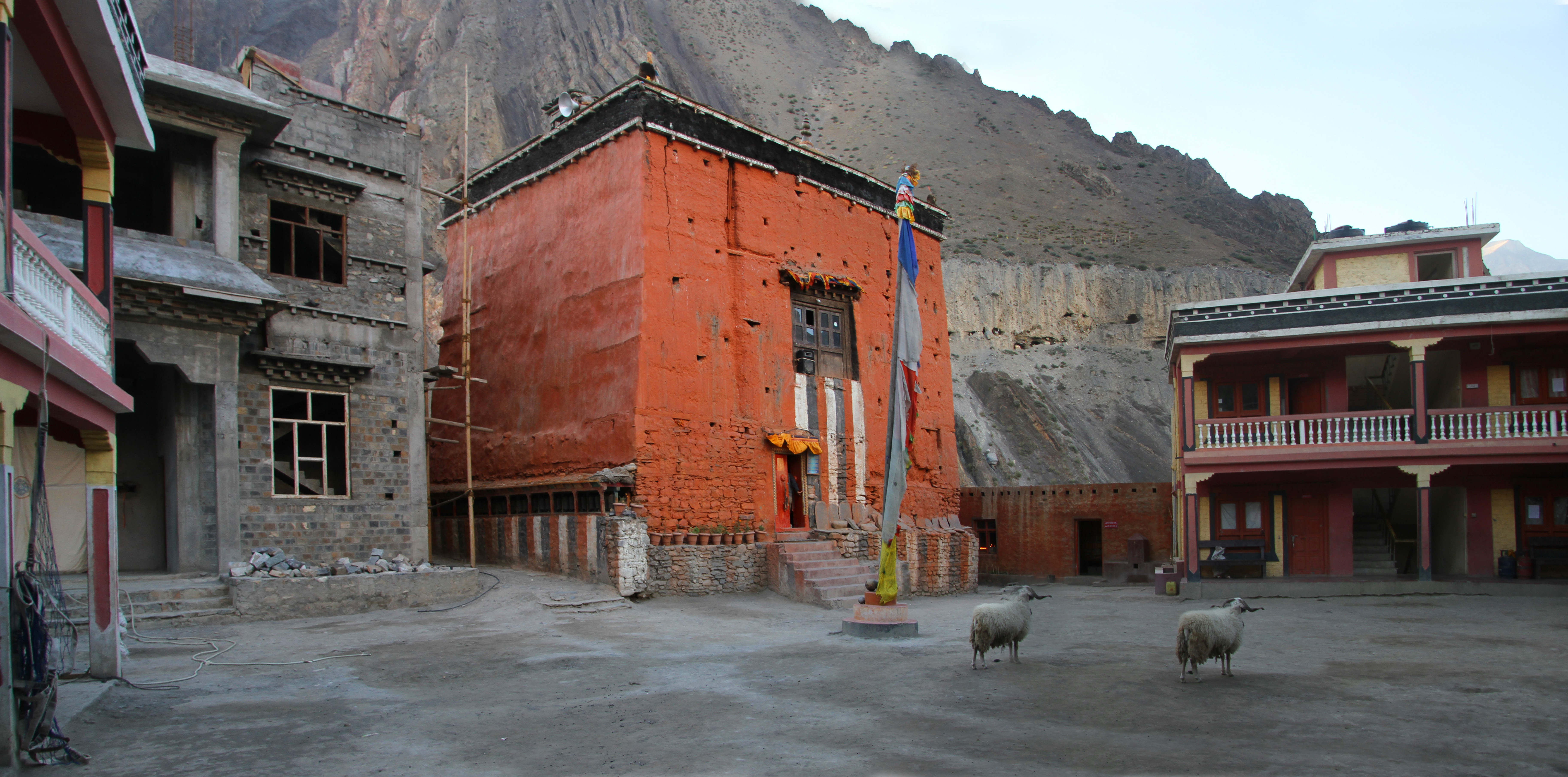 Kagbeni